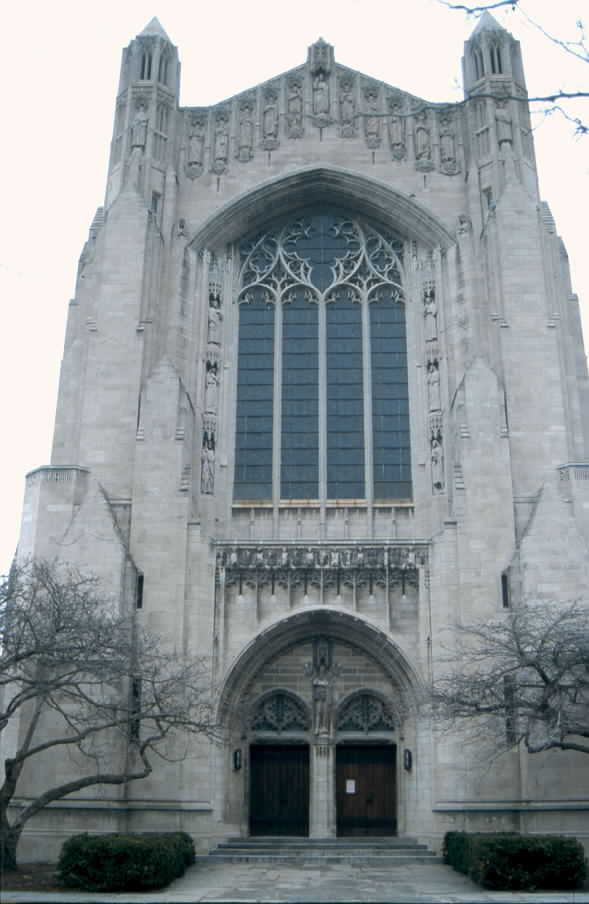 Bertram Goodhue: Rockefeller Chapel, University of Chicago